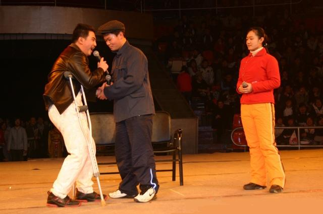 The Arts Festival of No.6 Middle School,Wuhan,China